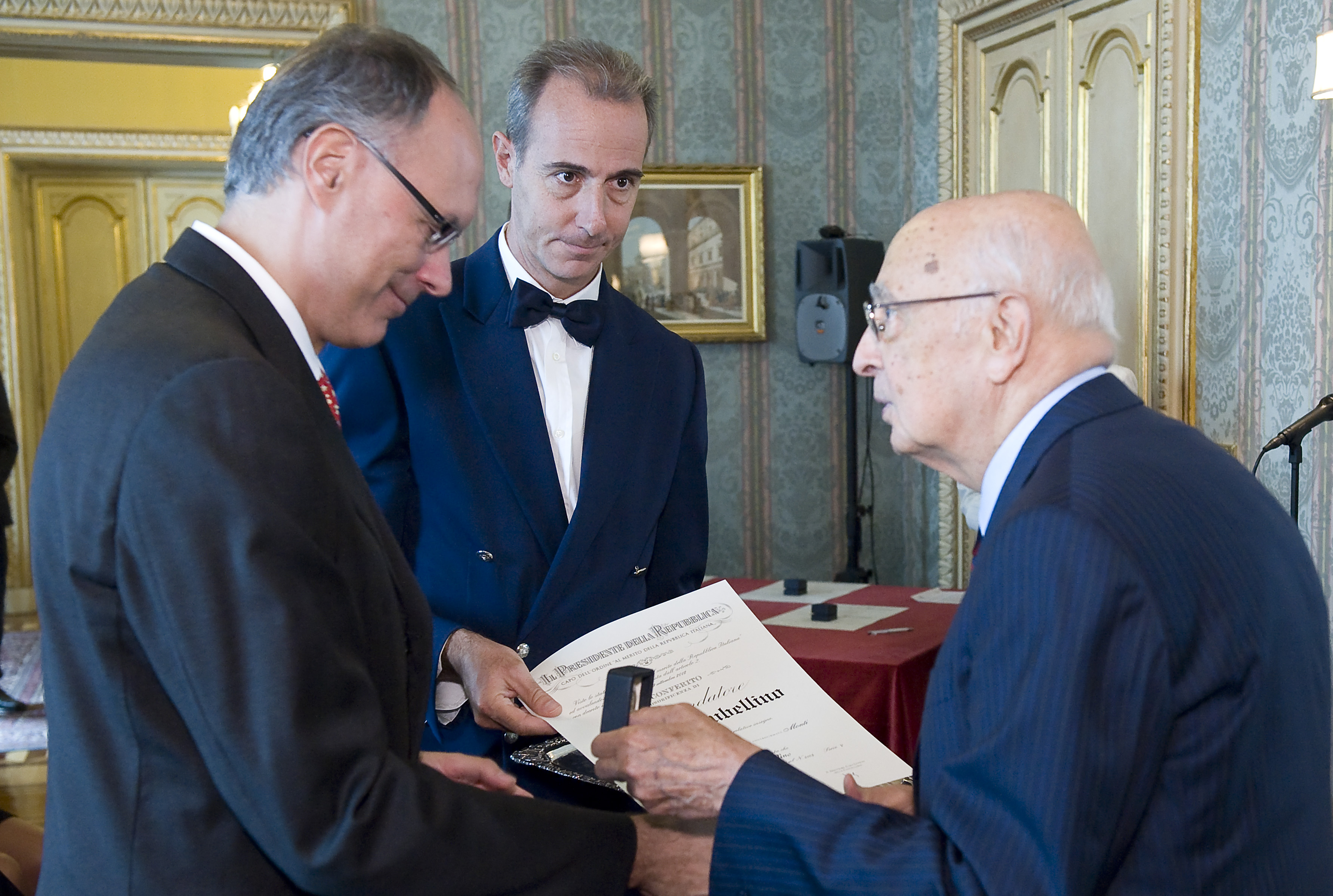 Paolo Giubellino receives the title of “commendatore” (“commander”, second-highest honorific title in the Republic) for scientific merits from Georgio Napolitano